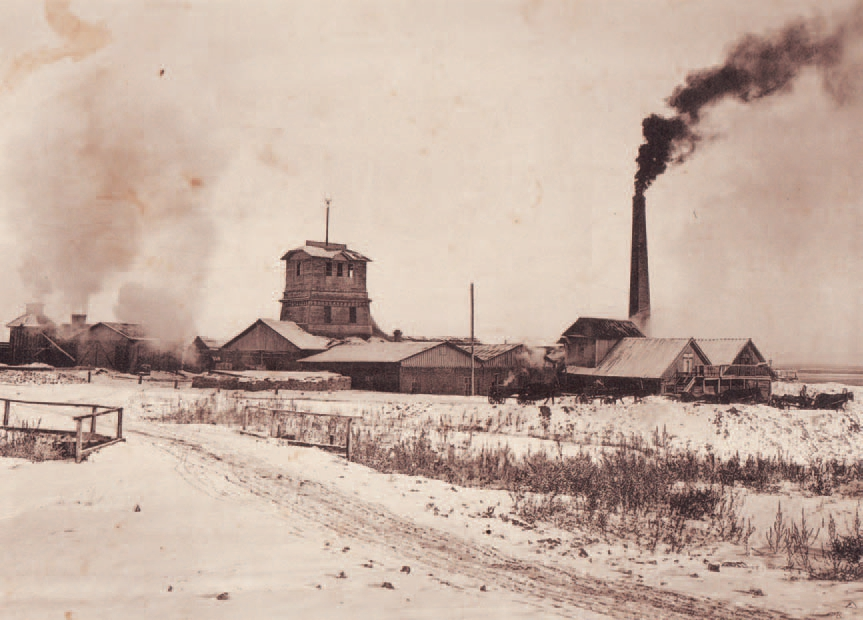 Mine "Dagmara". Lysychansk. Late XIX century.